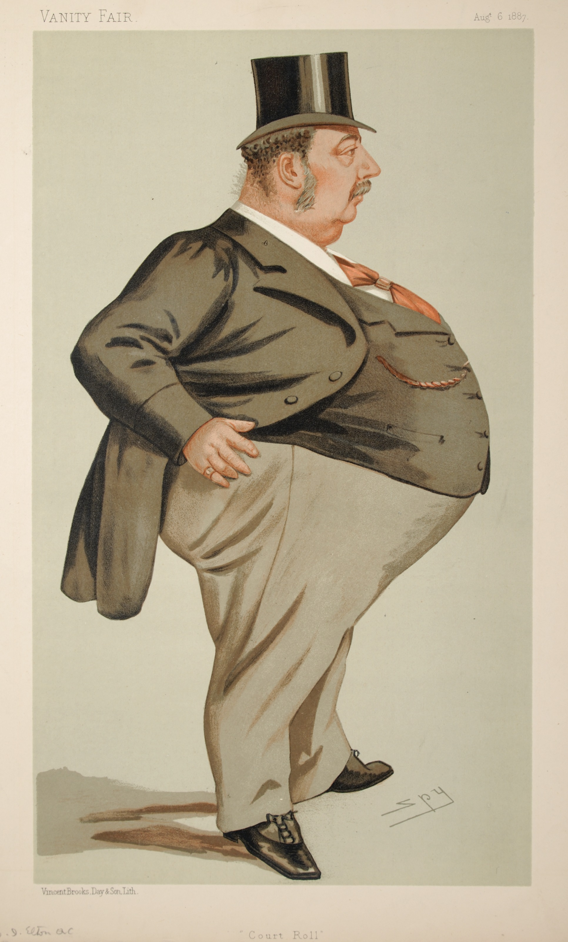 Statesmen No.525: Caricature of Mr CI Elton QC MP. Caption reads: "Court Roll"